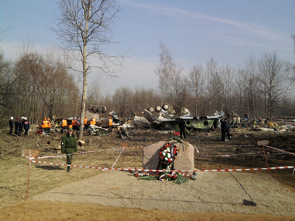 Smoleńsk tragedy